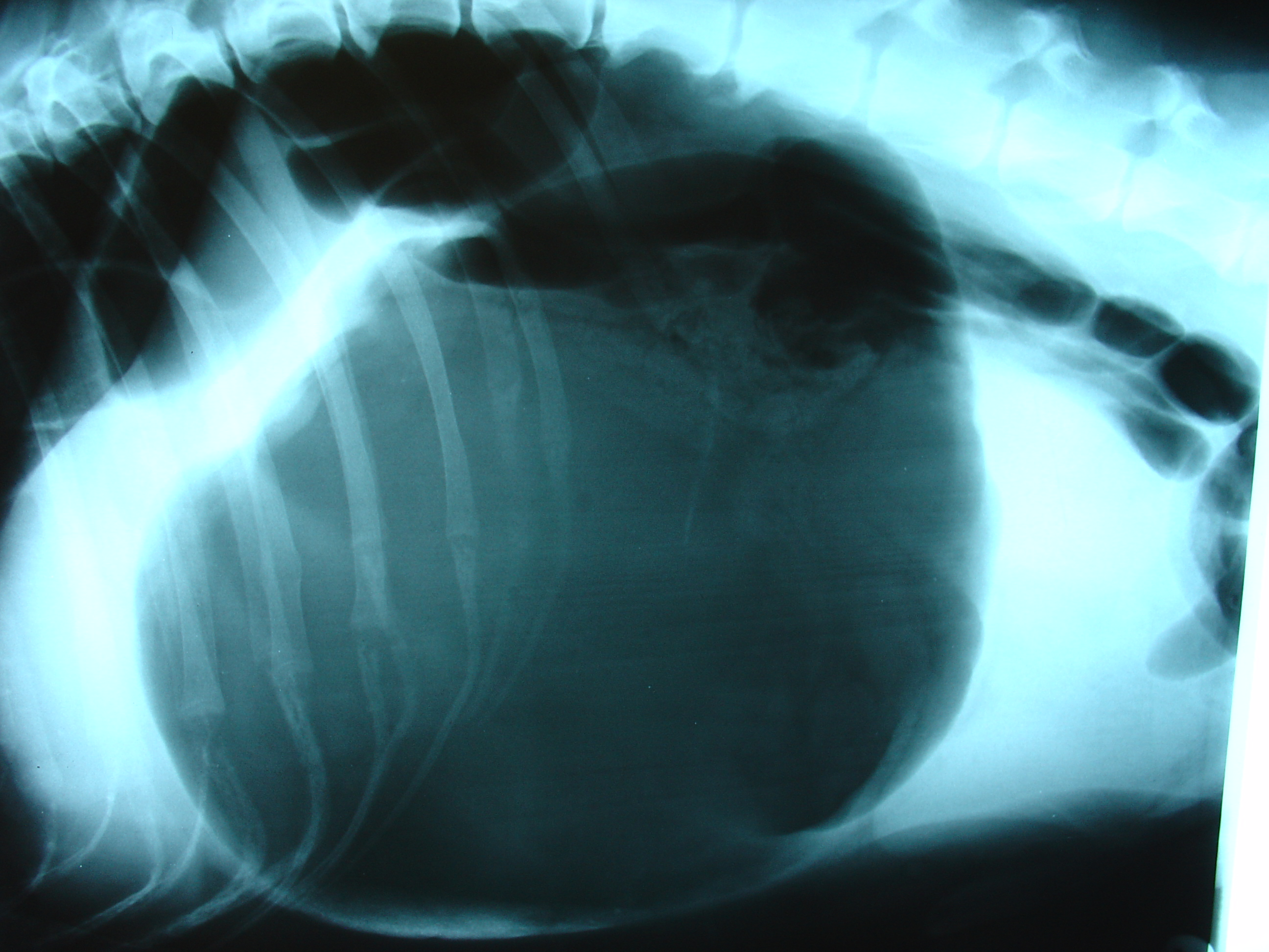 Photo of an x-ray showing gastric dilatation and volvulus in a German Shepherd Dog. The large dark area is the gas trapped in the stomach.